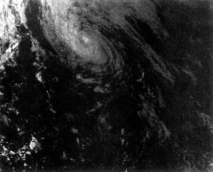 This image displays Hurricane Arlene over the northern Atlantic Ocean in August of 1987.